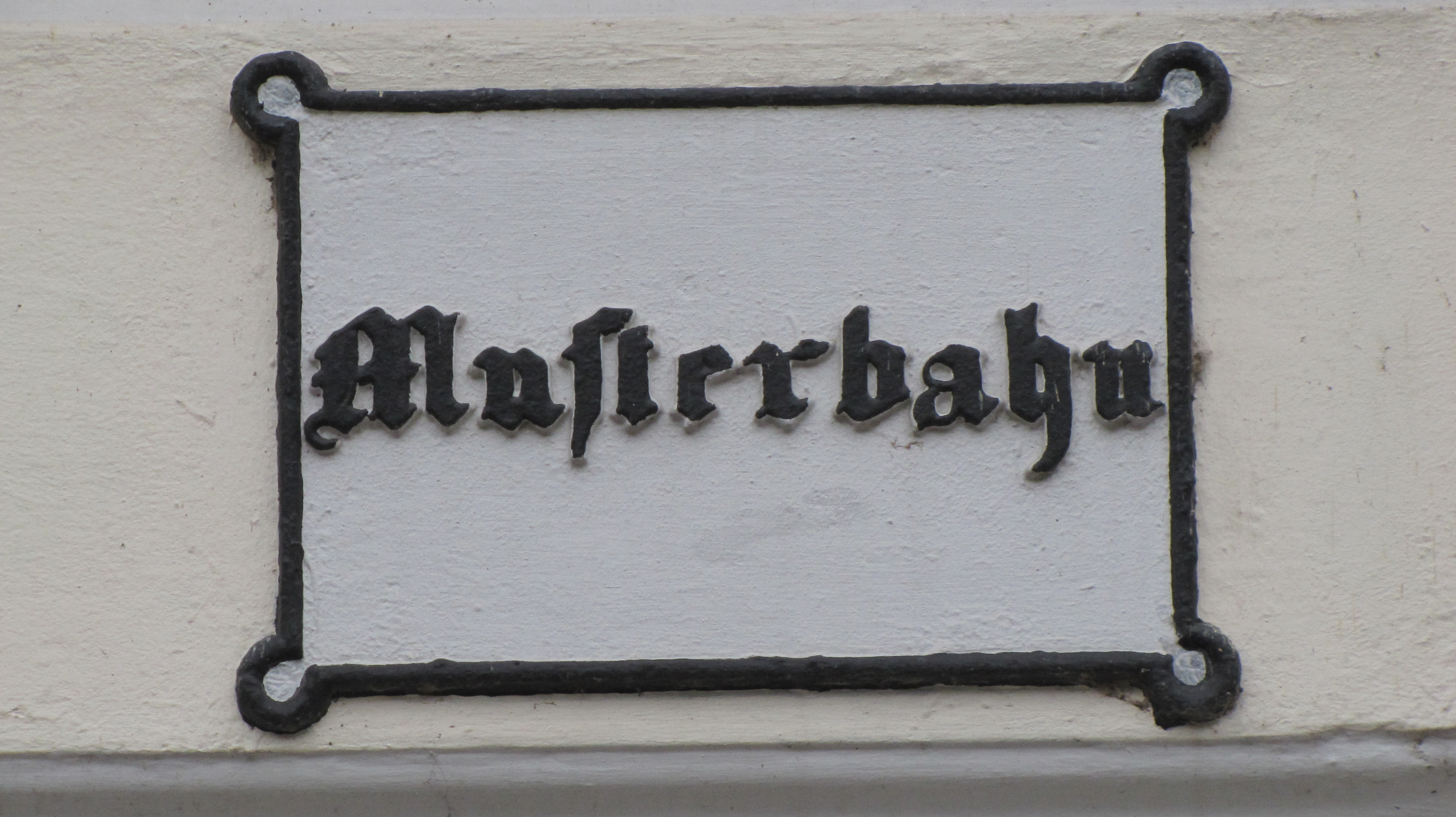 Musterbahn, Street sign in Lübeck